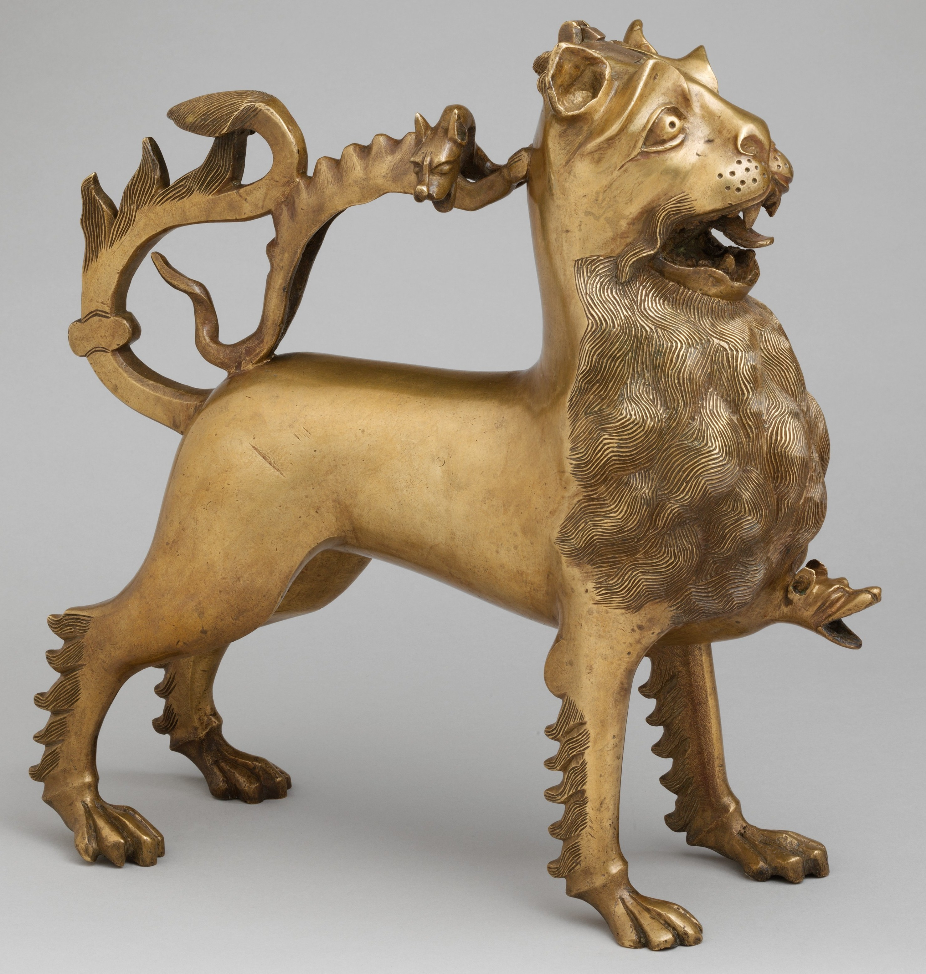 German; Aquamanile; Metalwork-Copper alloy